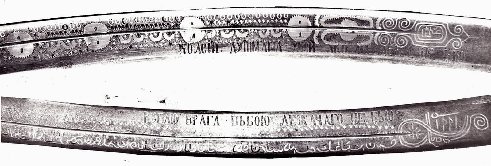 Sabre of Novak Milošev